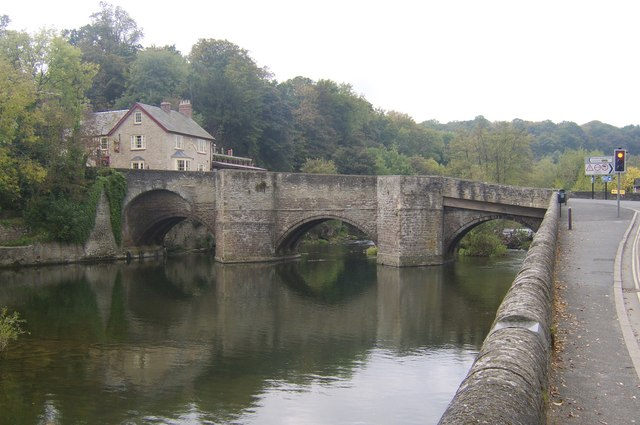 Ludford Bridge Ludlow Crossing over the River Teme